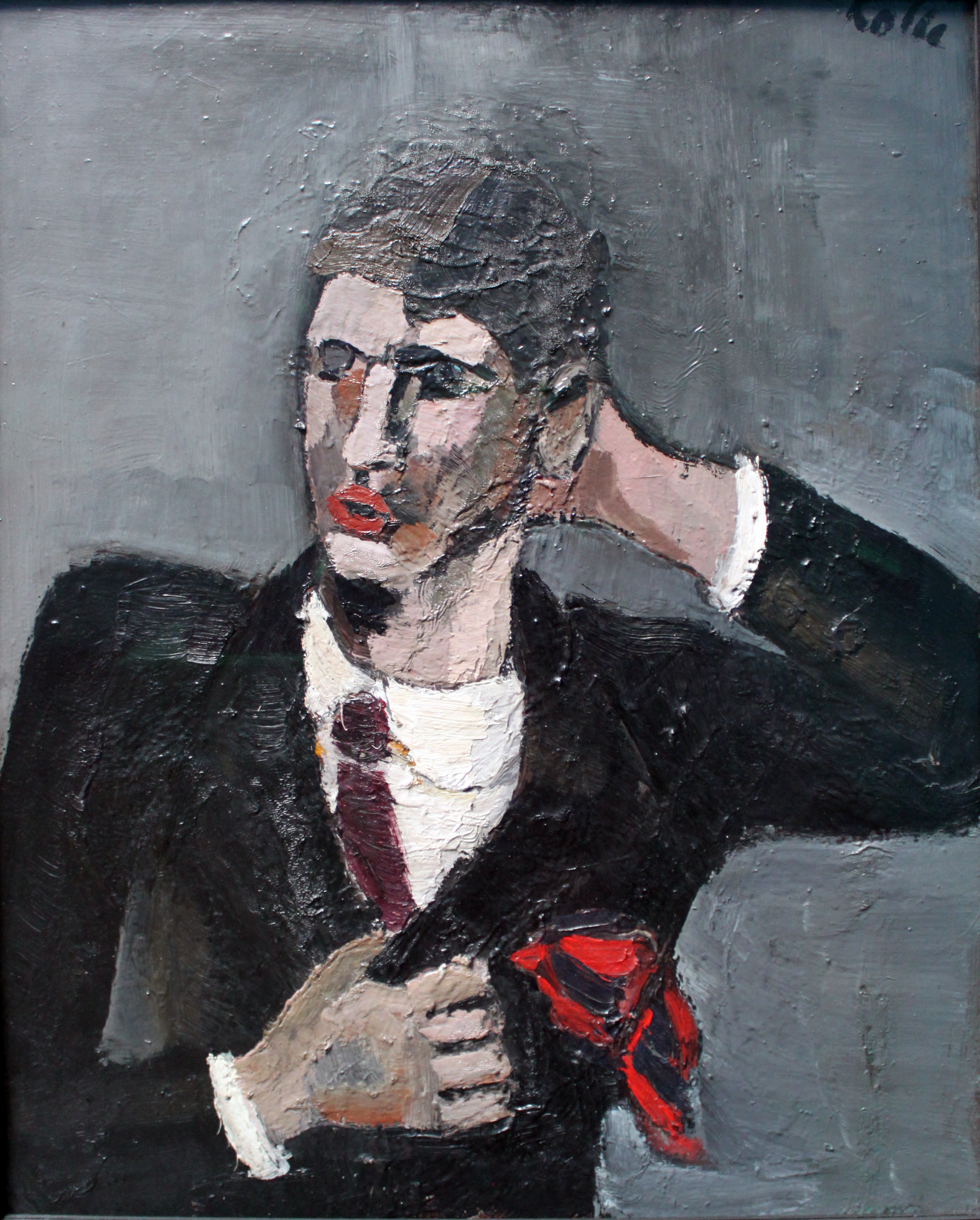 Self-portrait